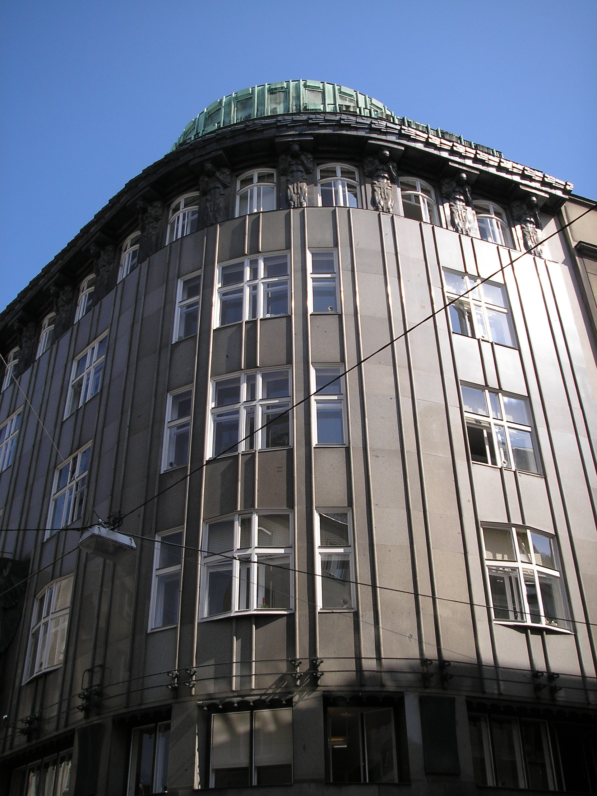 Image of the Zacherl-Haus in Vienna's first district Innere Stadt, located at Brandstätte 6. Constructed by Jože Plečnik (1872 – 1957) around 1903-5.